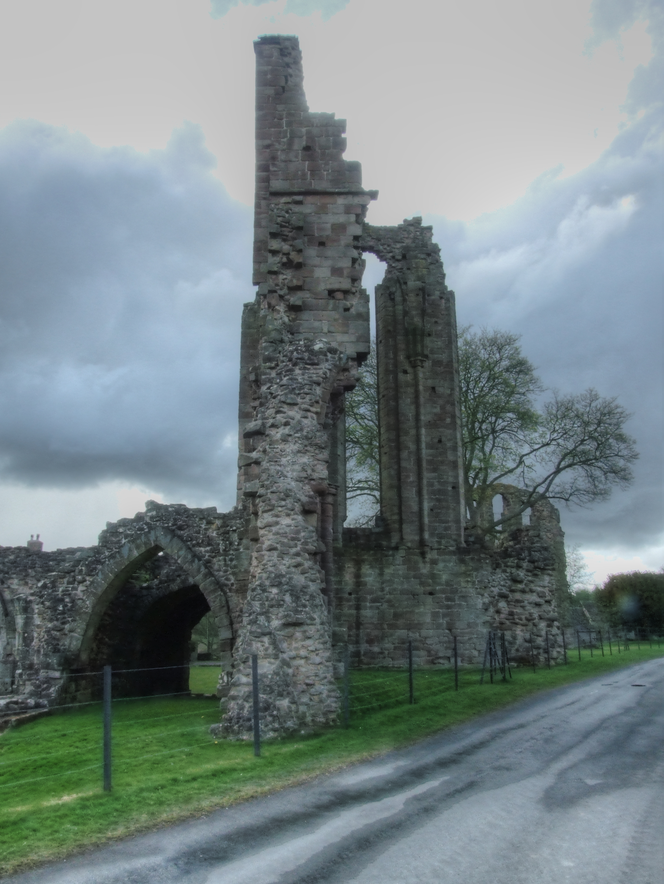 x-tower